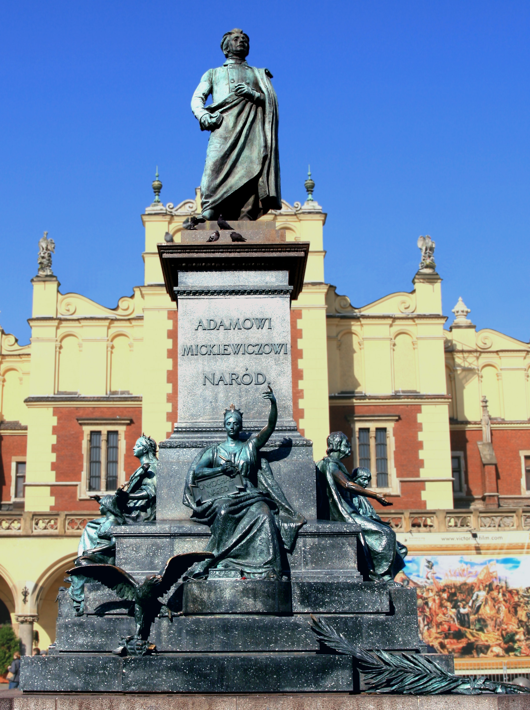 Adam Mickiewicz Monument at the Main Market Square in Kraków (Poland).